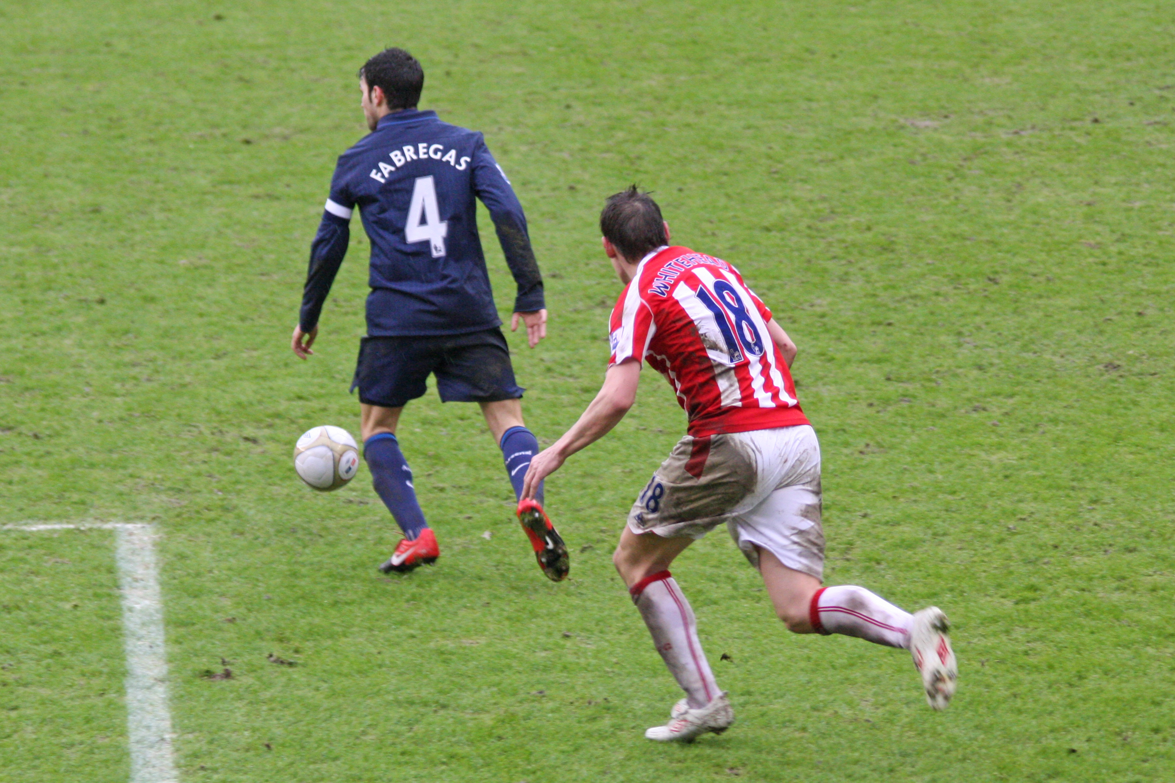 Stoke City FC V Arsenal 67